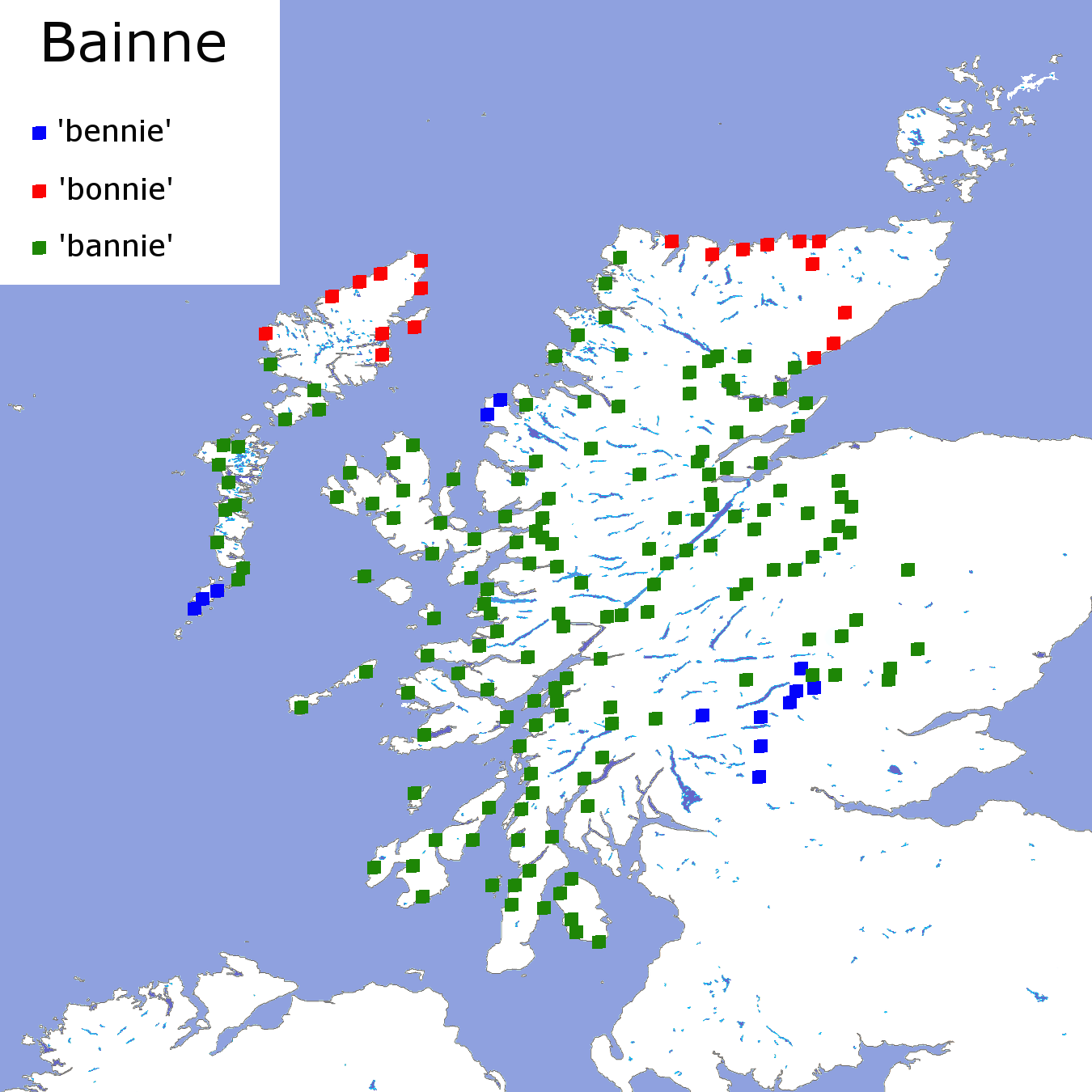 Map of the pronounciation of the word 'bainne' (milk) in the Scottish Ghàidhealtachd, based upon Scottish Gaelic Dialect Survey by Douglas M Fraser, 2015